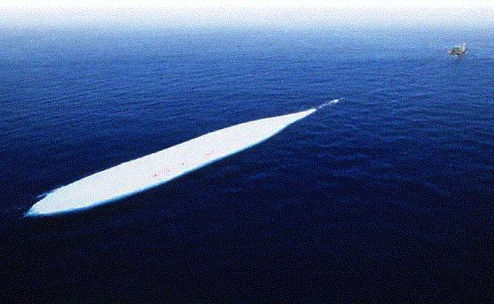 The 10,800 m3 waterbag developed by Nordic Water Supply in 1997 towed between Turkey and Northern Cyprus